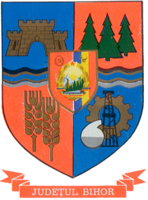 Communist coat of arms of Bihor County, Socialist Republic of Romania.